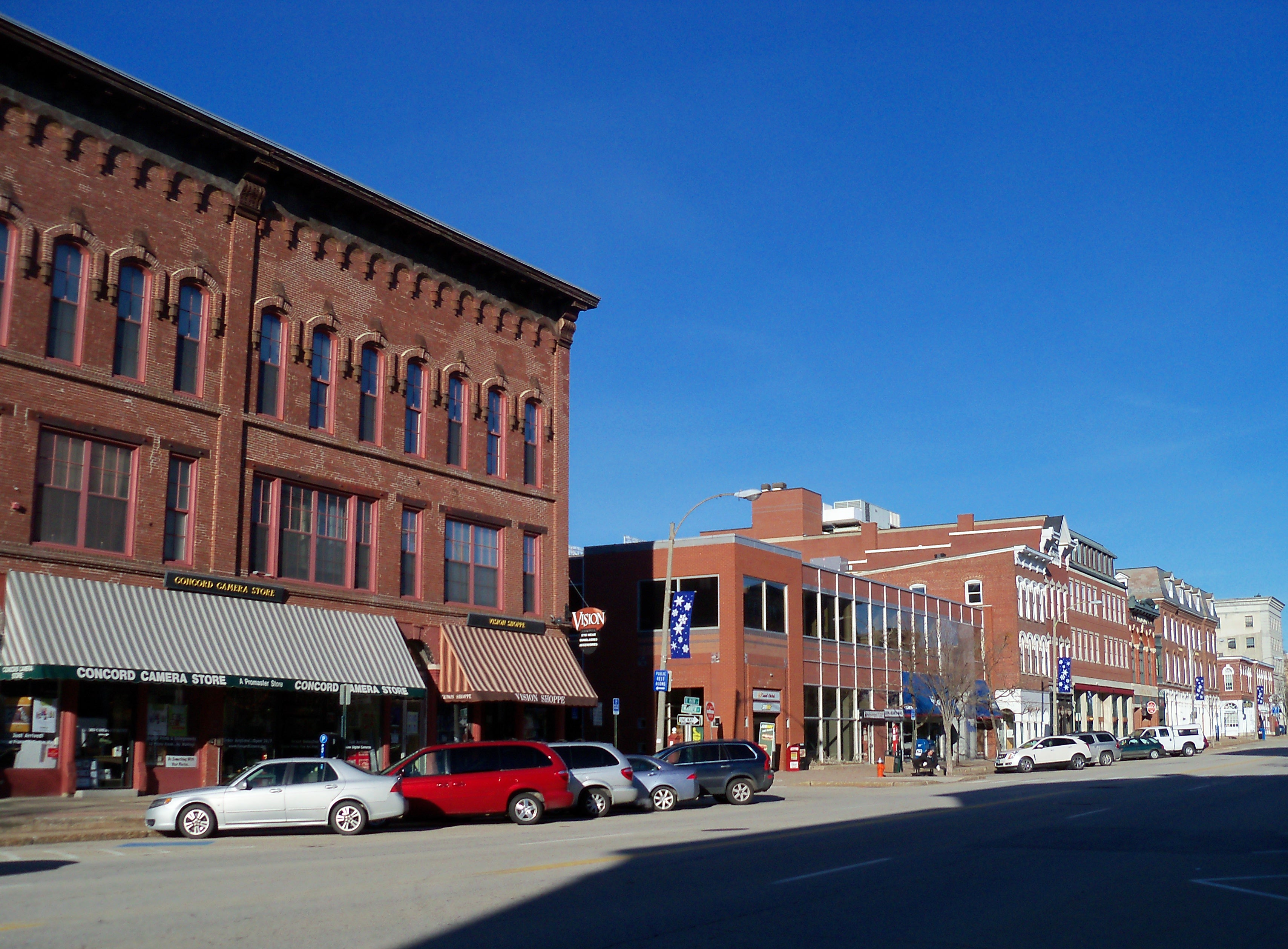 Buildings along Main Street in downtown Concord, New Hampshire, USA.